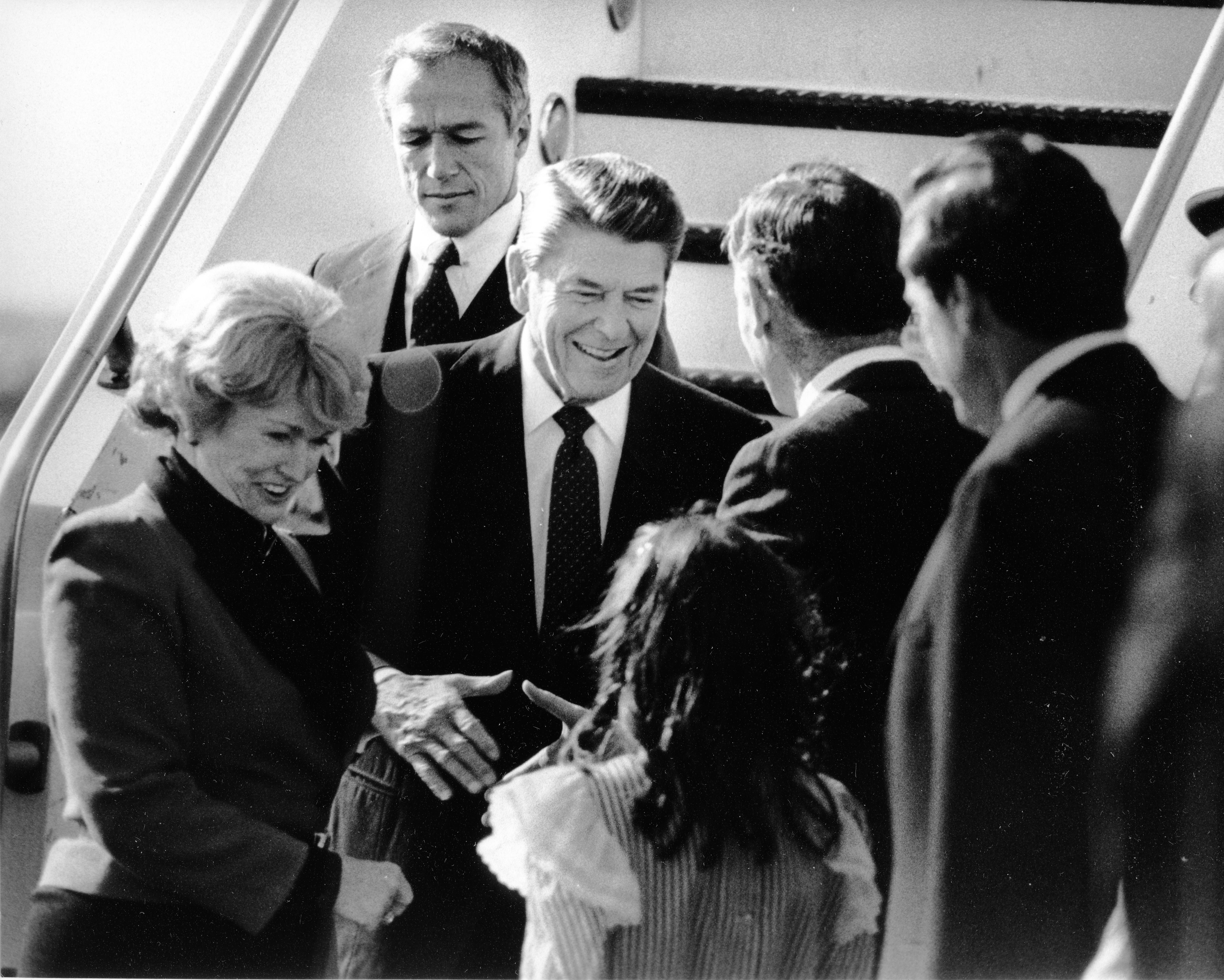 Title: Mayor Raymond L. Flynn greeting President Ronald Reagan at airport with Margaret Heckler Creator: Mayor's Office - City Photographer Date: circa 1985-1987 Source: Mayor Raymond L. Flynn records, Collection #0246.001 File name: RF_008 Rights: Copyright City of Boston Citation: Mayor Raymond L. Flynn records, Collection #0246.001, Boston City Archives, Boston